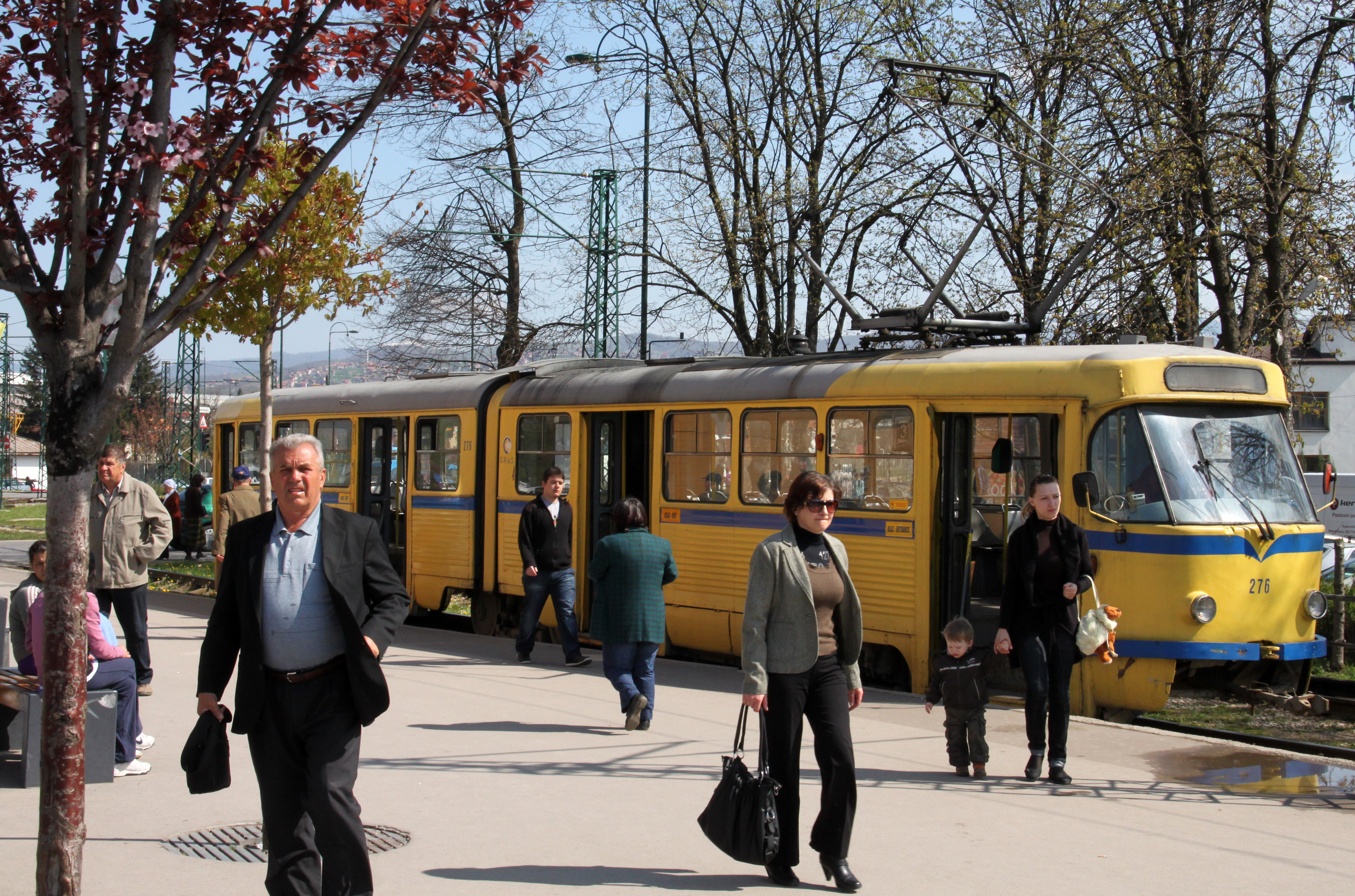 A Tatra K2-tram at the ligne 3 terminus Ilidža, Sarajevo